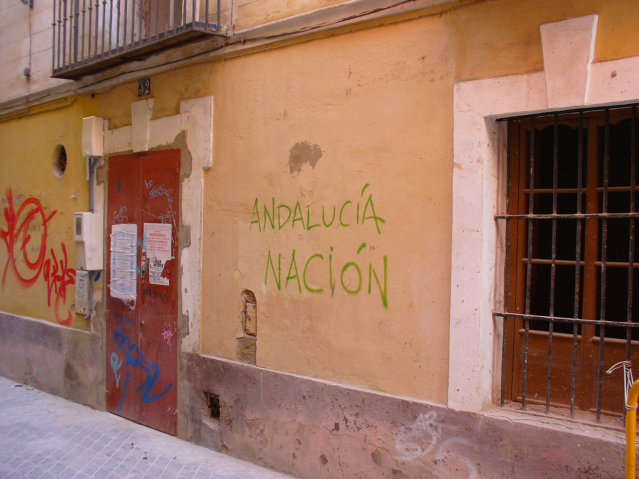 Graffiti in Seville, Spain